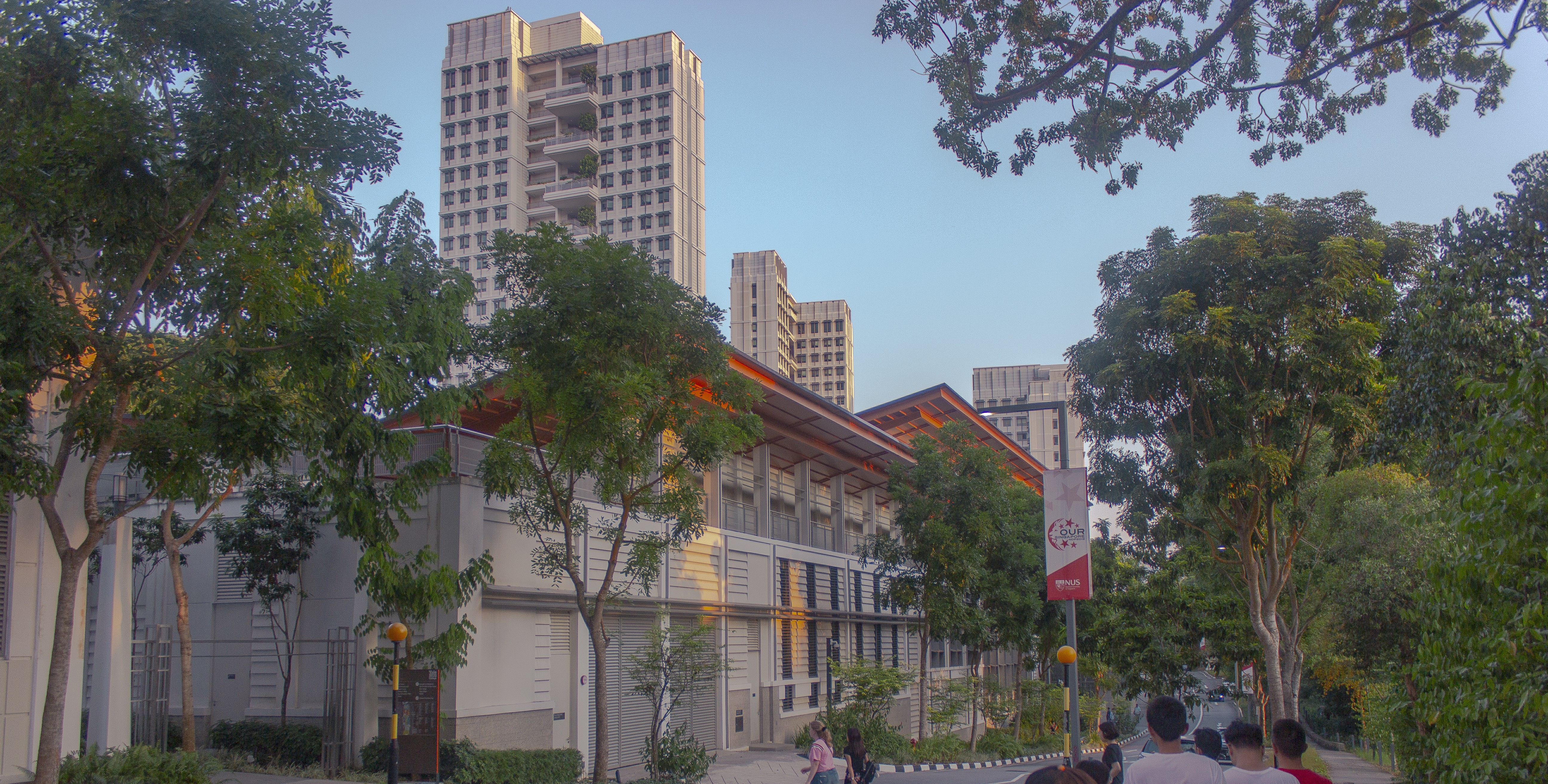 The facade of Yale-NUS College along College Avenue West. Yale-NUS is a liberal arts college founded by the Yale University and the National University of Singapore.